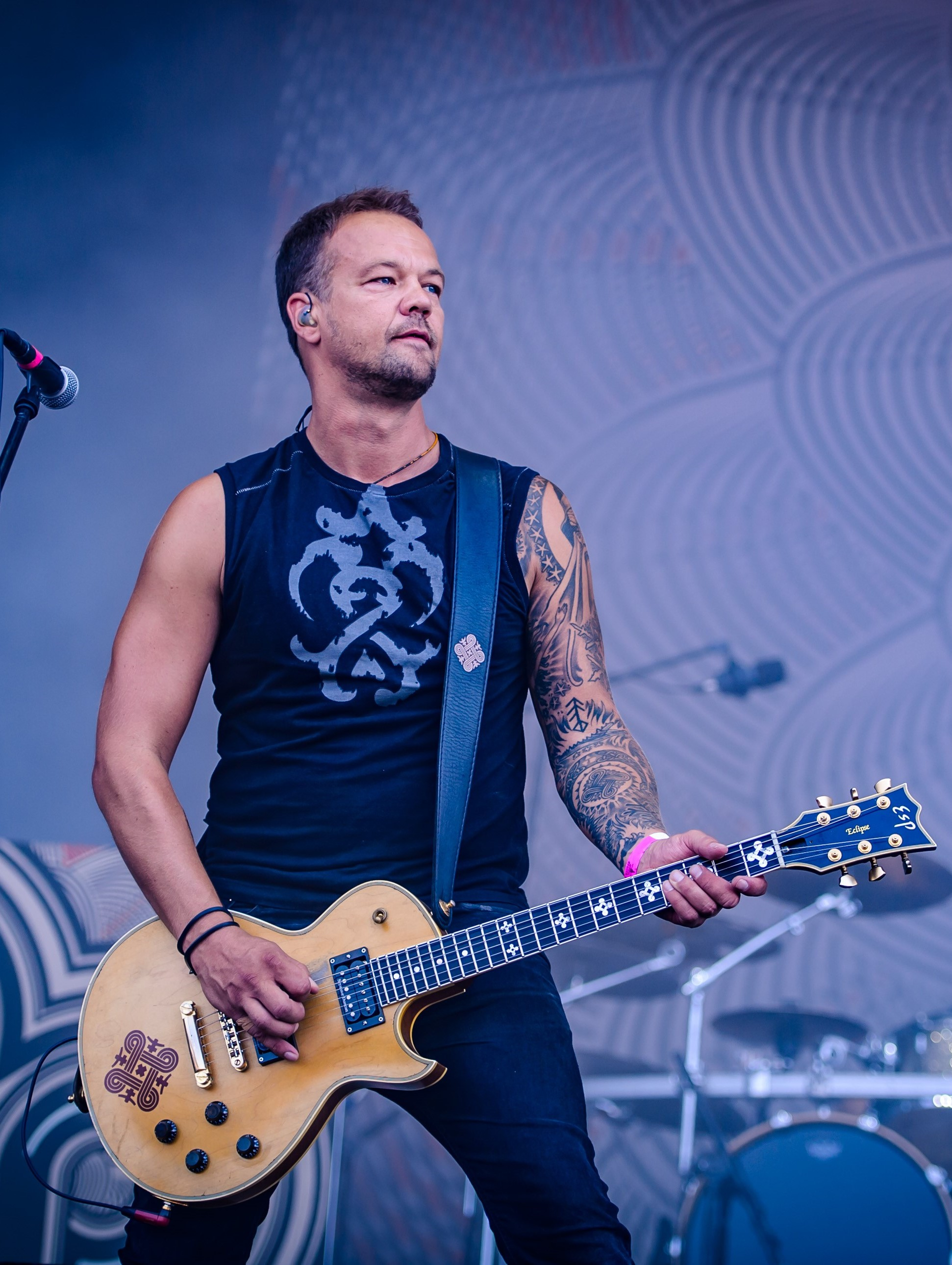 A cropped version of File:20180803 Wacken Wacken Open Air Amorphis 0061.jpg